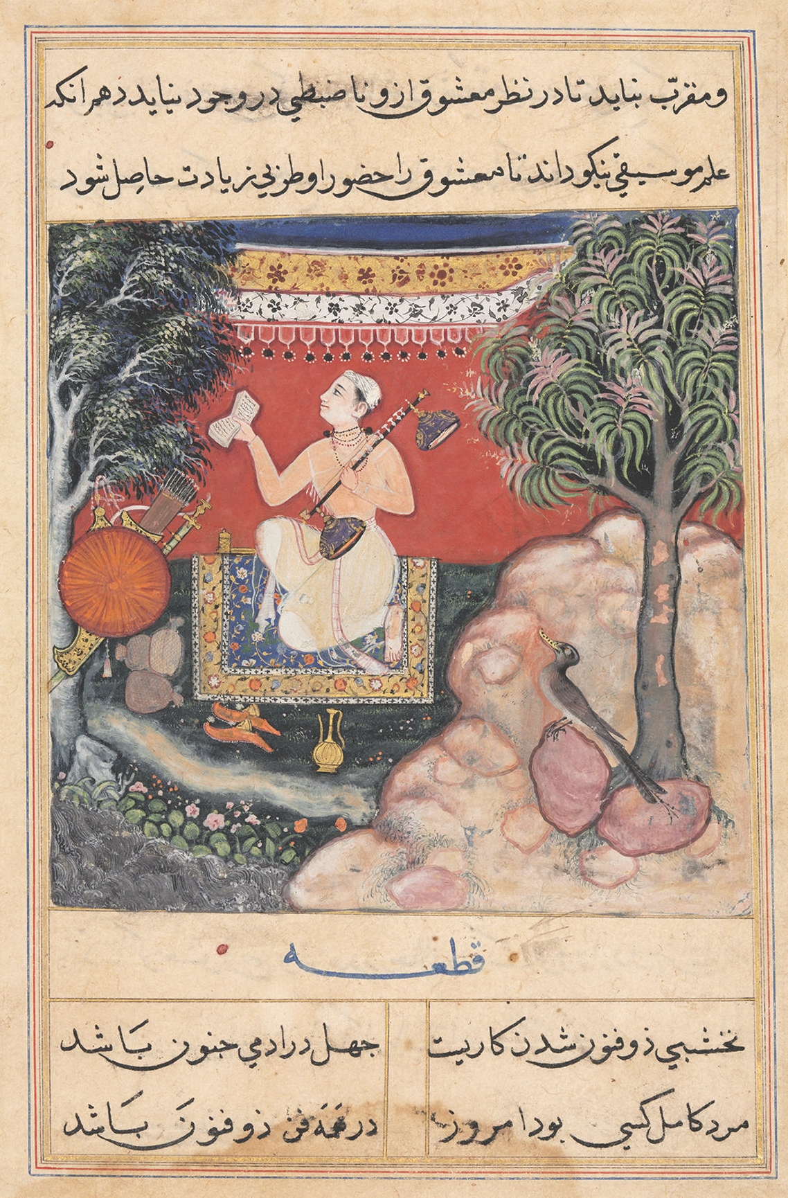 Basawan. The Origin of Music Page from a Tutinama Manuscript 1560-65 Cleveland Museum of Art